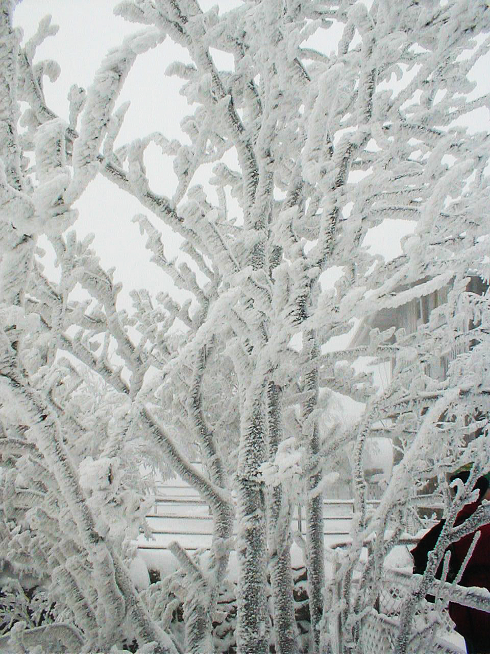 Hard rime on top of Szczeliniec Wielki, Poland